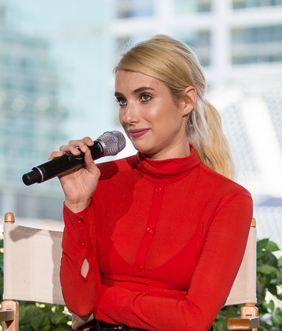 Camp Conival offsite at Petco Park during San Diego Comic-Con 2016